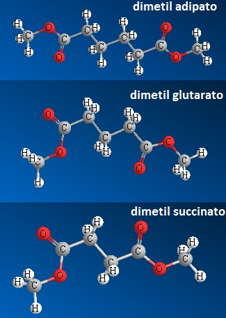 Estasol